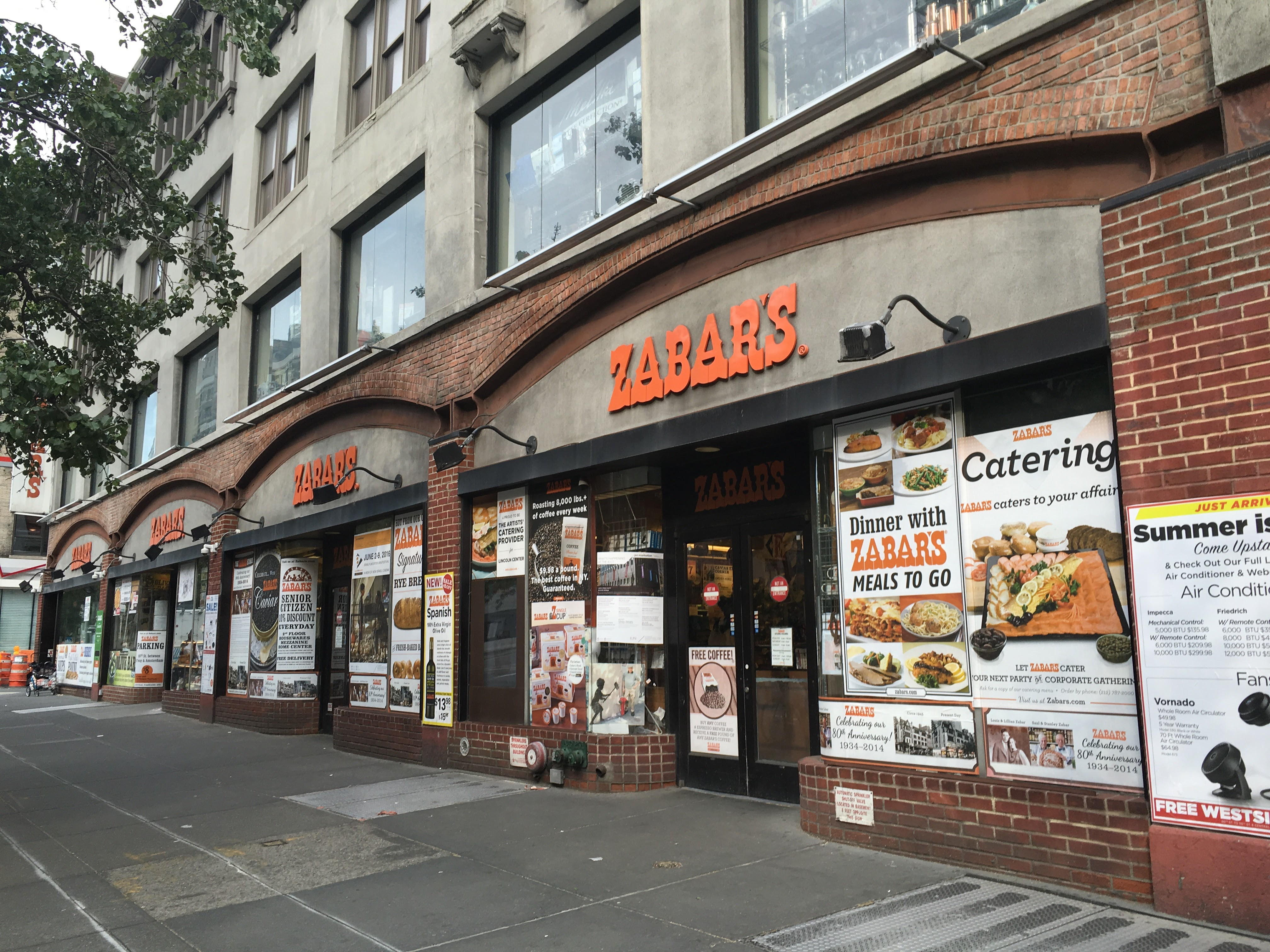 Zabars in Manhattan, wide shot, 2016